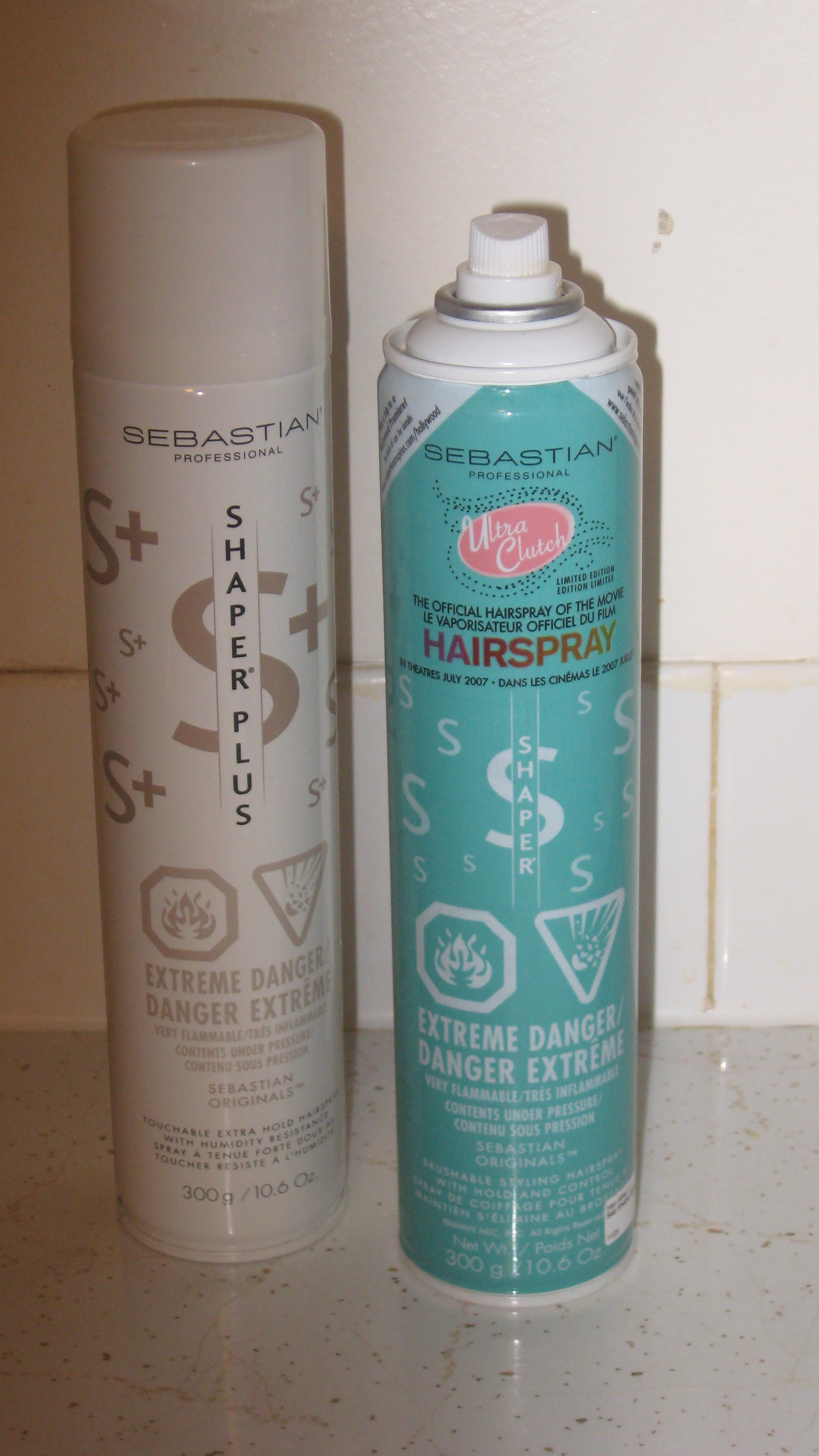 sample cans, shot by me